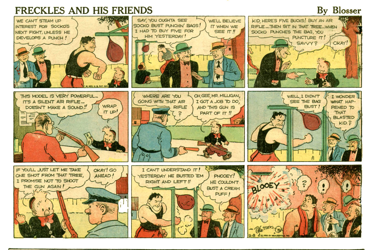 Copy of the comic strip Freckles and His Friends from 1935 A search for renewals was done in both contributions to publications and artwork for the years 1962 and 1963. There were no listings for Merrill Blosser; the listings for NEA service were in artwork for 1963. There are a good many of them, but all listed are photos of the Dionne quintuplets. There were no listings for anything other than photos of the quints; there's no evidence that copyright continues to be claimed on this comic.